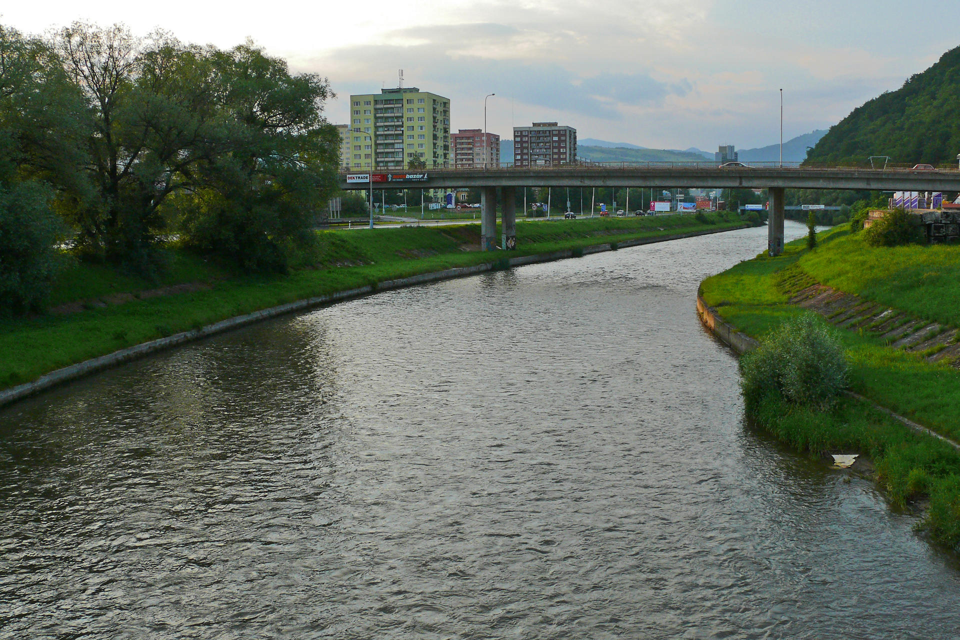 Hron river in Banska Bystrica